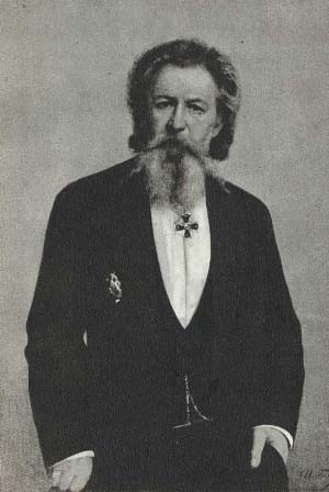 Jūlijs Feders